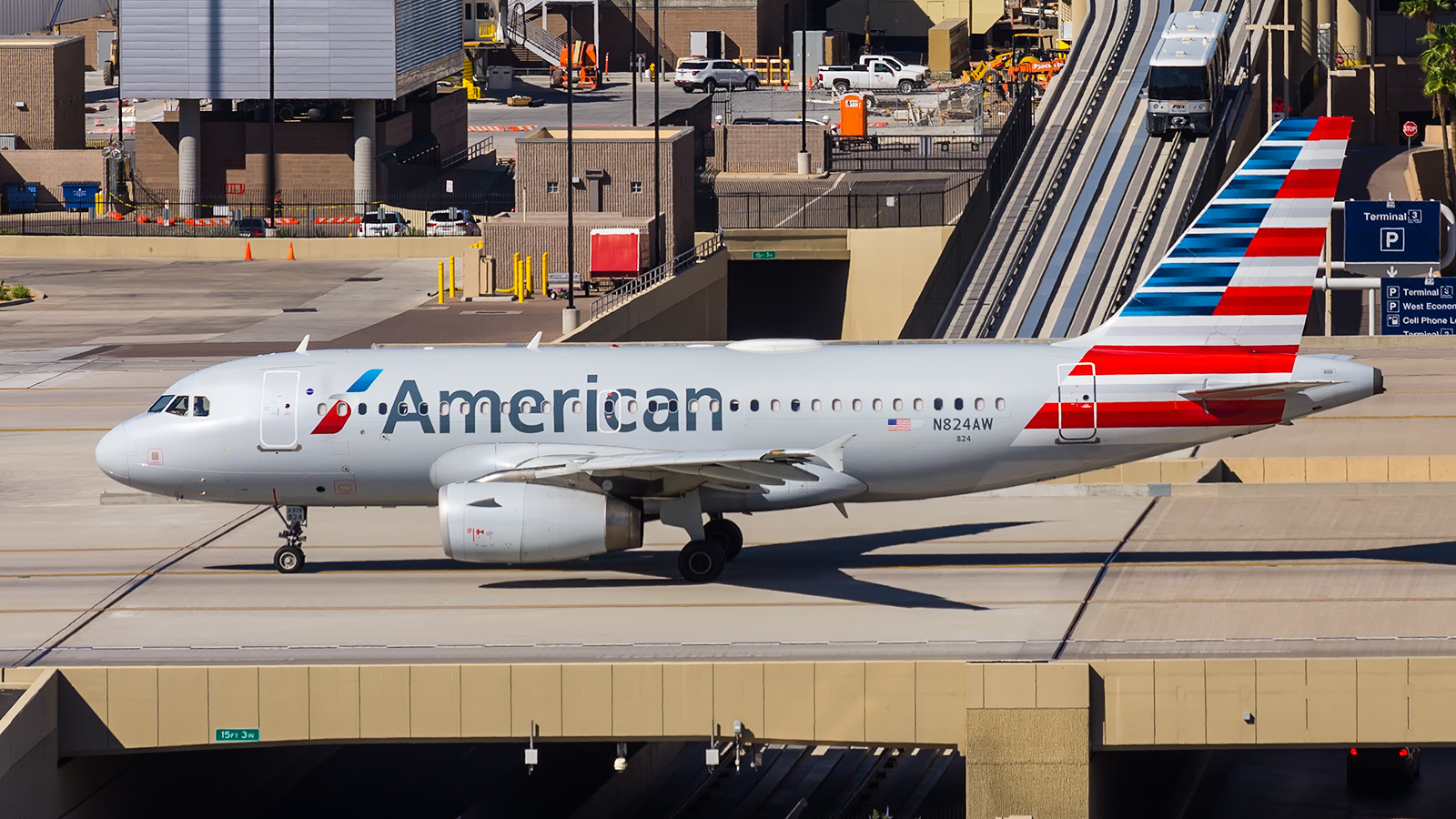 Phoenix Sky Harbor - October 10, 2018